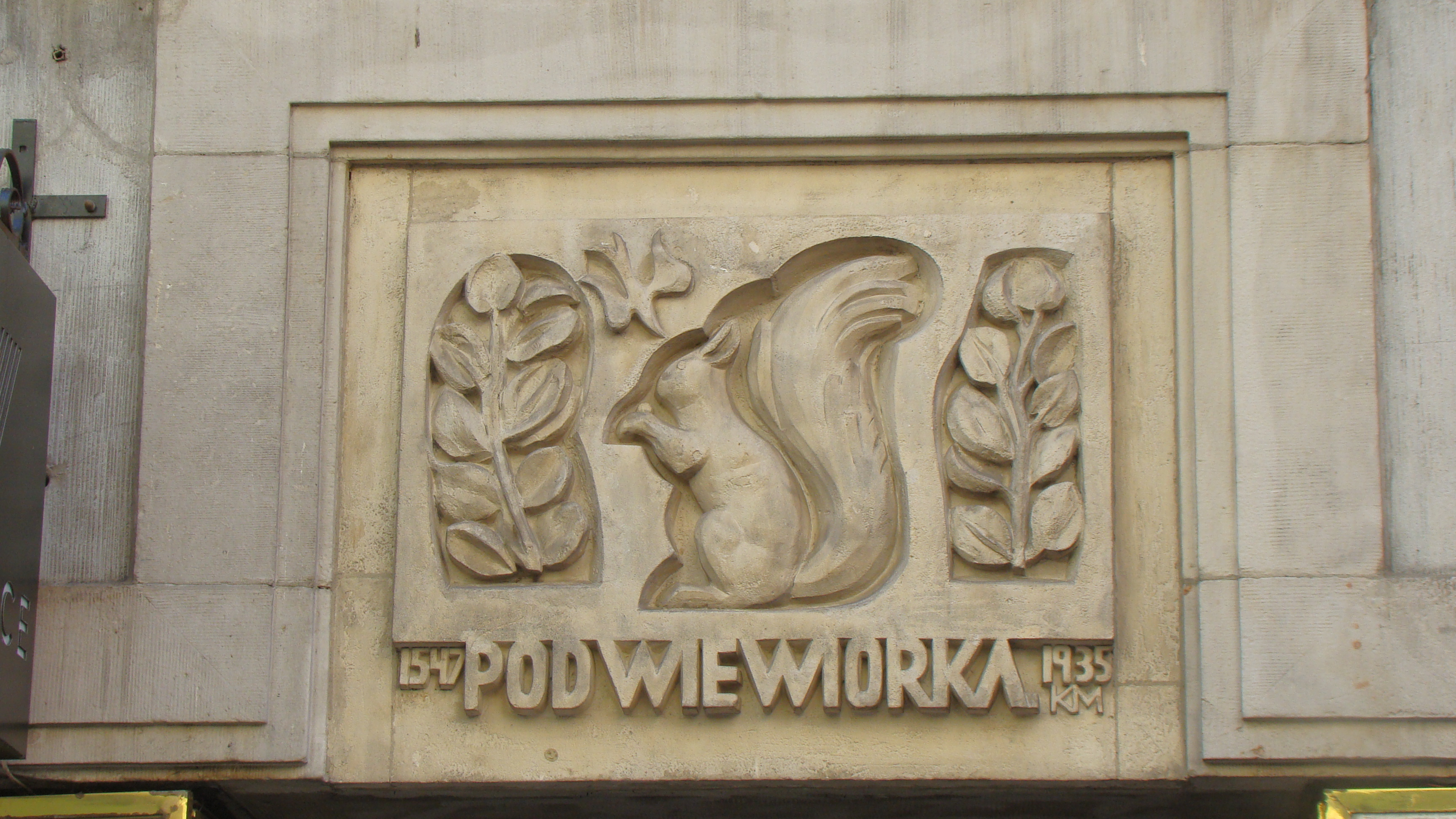 House under the squirrel